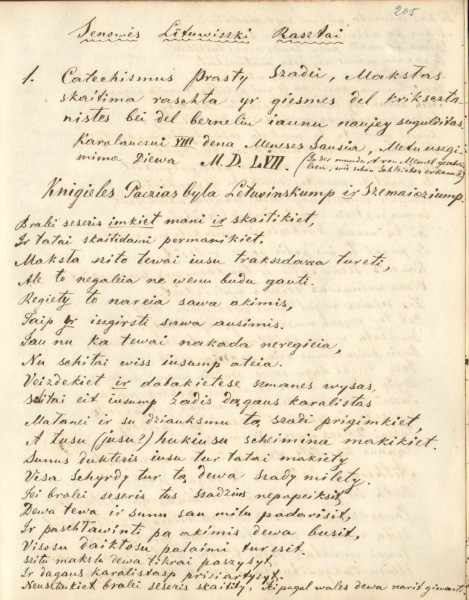 Handwritten page on the history of Lithuanian literature (discusses the Catechism of Martynas Mažvydas) by Kazimieras Jaunius